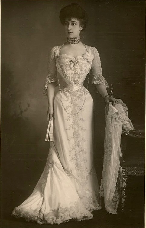 Queen Maud of Norway (1869-1938)